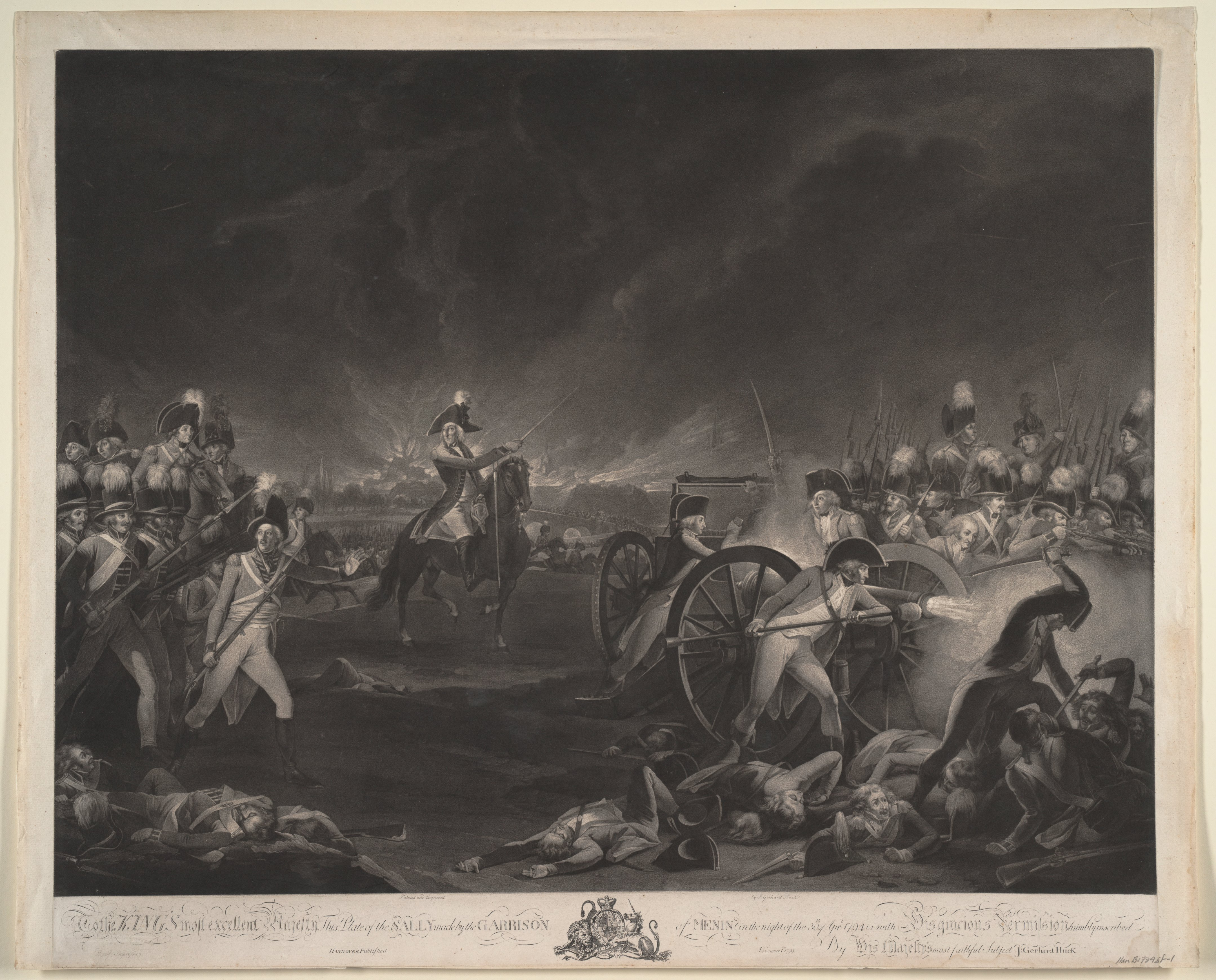 Battle of Menin April 1794, contemporary engraving